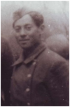 This the photo of the soldier Vangel Filo